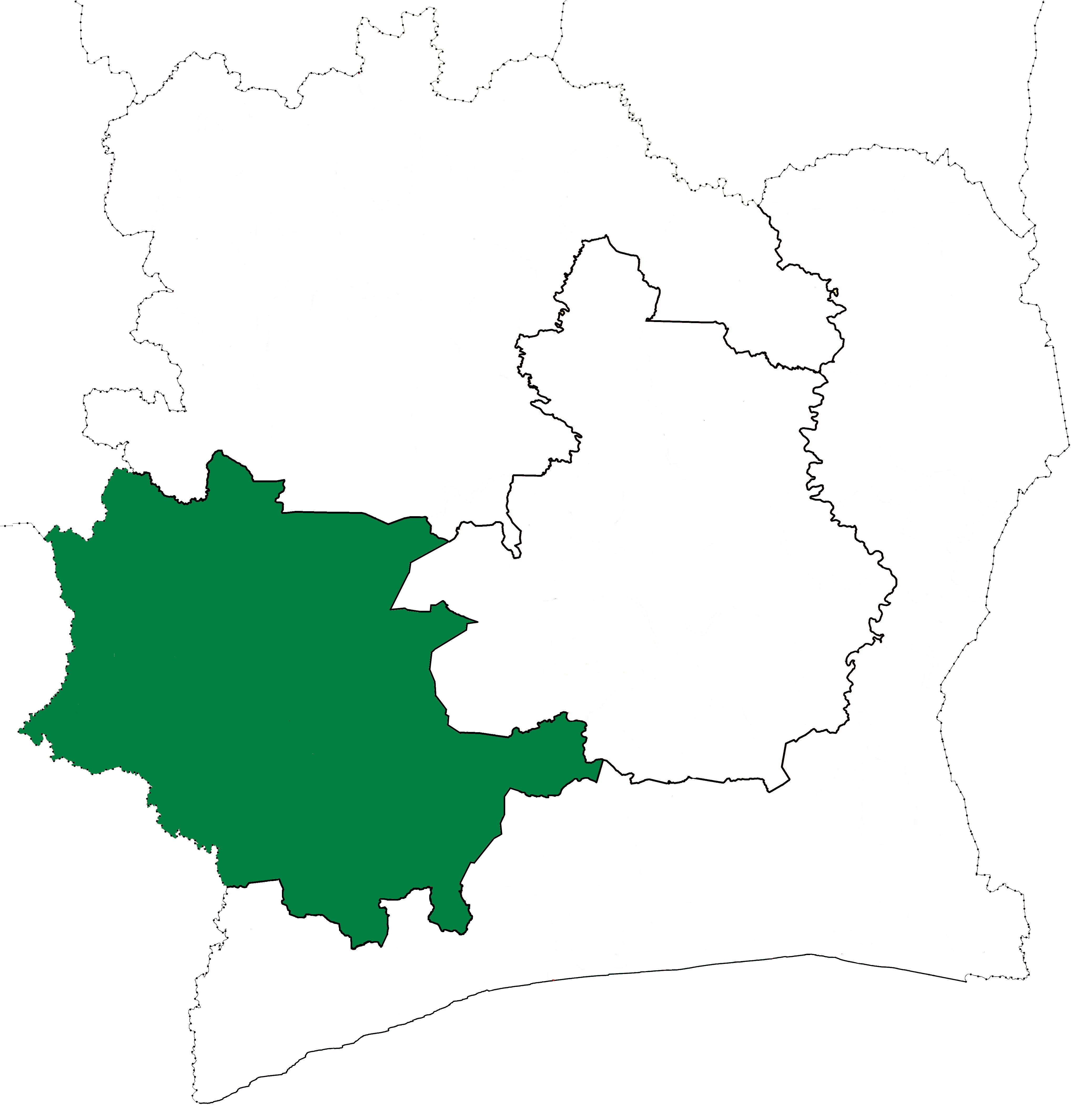 Locator map for Sud-Ouest Department in Côte d'Ivoire (1961–63).